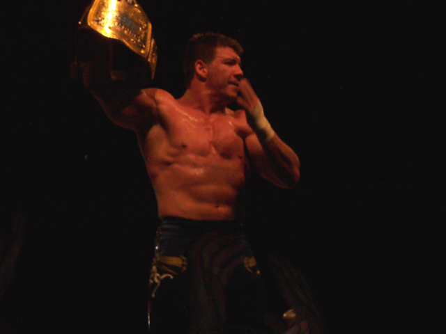 Eddie Guerrero @ Adelaide, South Australia 'Smackdown' house show on the 10th of April '05Eddie Guerrero